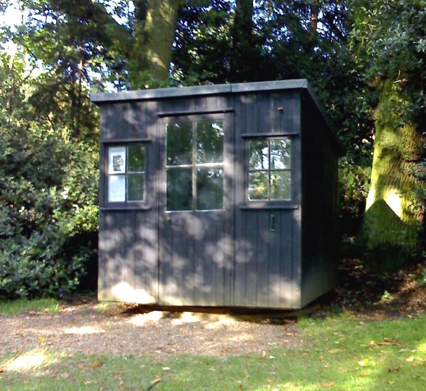 Shaw's revolving hut, where he wrote Pygmalion, amongst other things.